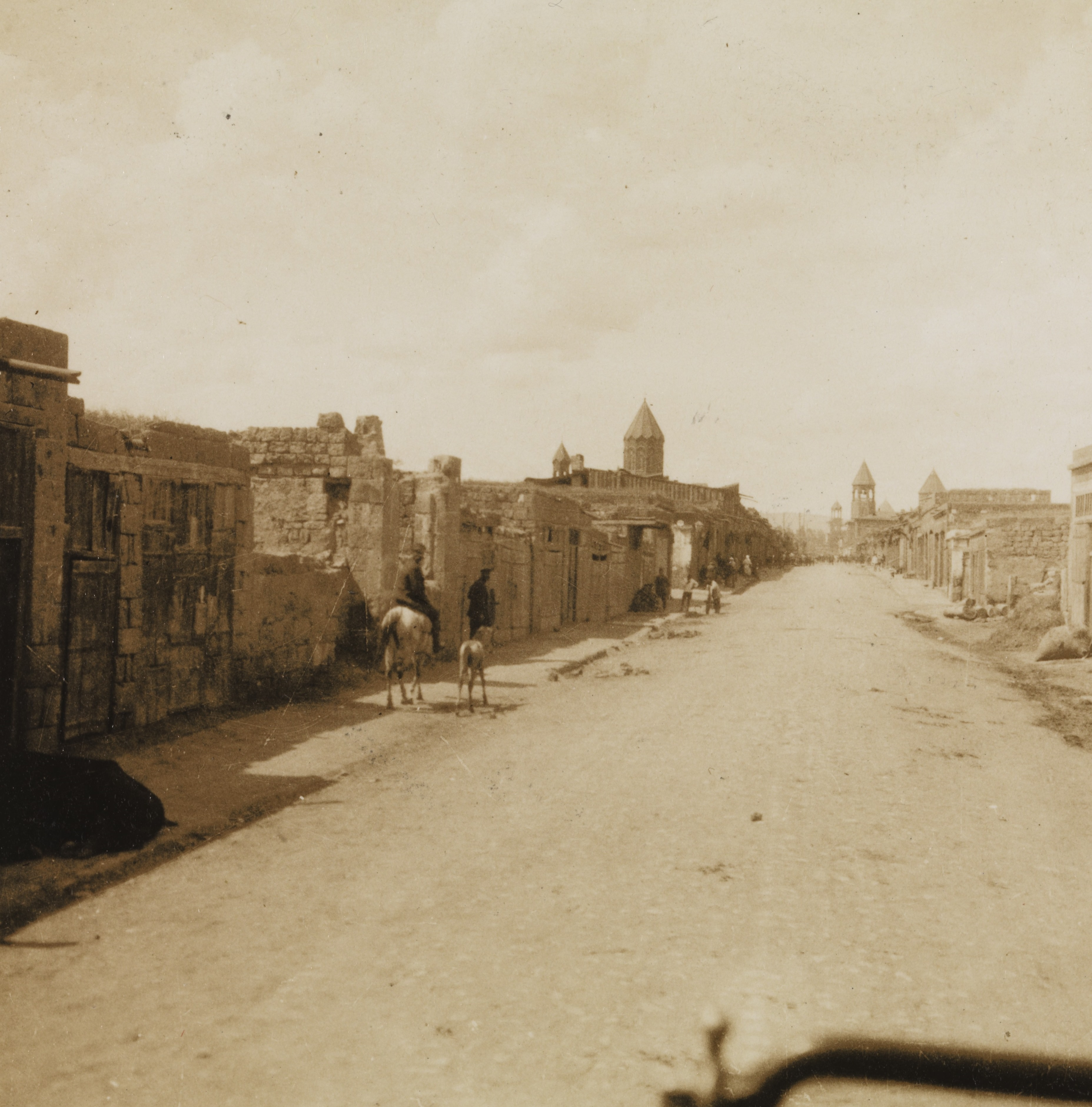 Street in Leninakan. One year later, the town was hit by an earthquake. Four fifths of the houses and 30 villages in the area were ruined. 80,000 people lost their homes. One of the pictures from the trip through Armenia, in the period June 7 to July 2, 1925. On request of the International Labour Union (ILO) and the League of Nations, Fridtjof Nansen travelled together with an appointed committee of experts, visiting the country and looking at the plans for artificial irrigation of parts of the desert, in order to relocate refugees there. (Leninakan).